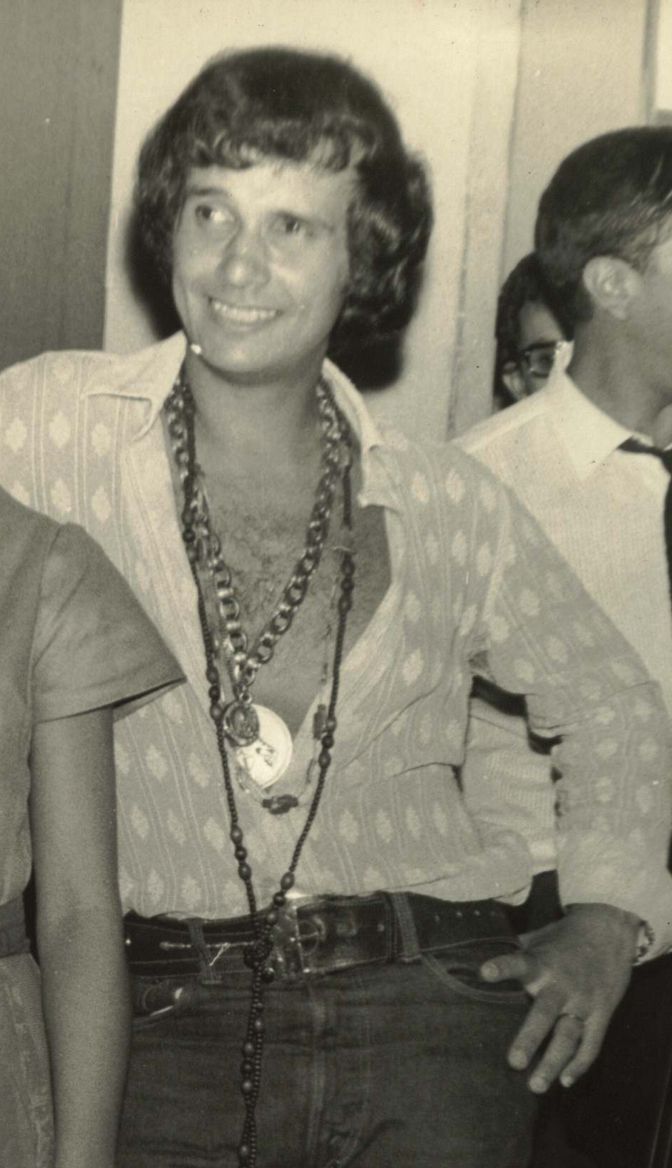 Roberto Carlos in the early 70's.